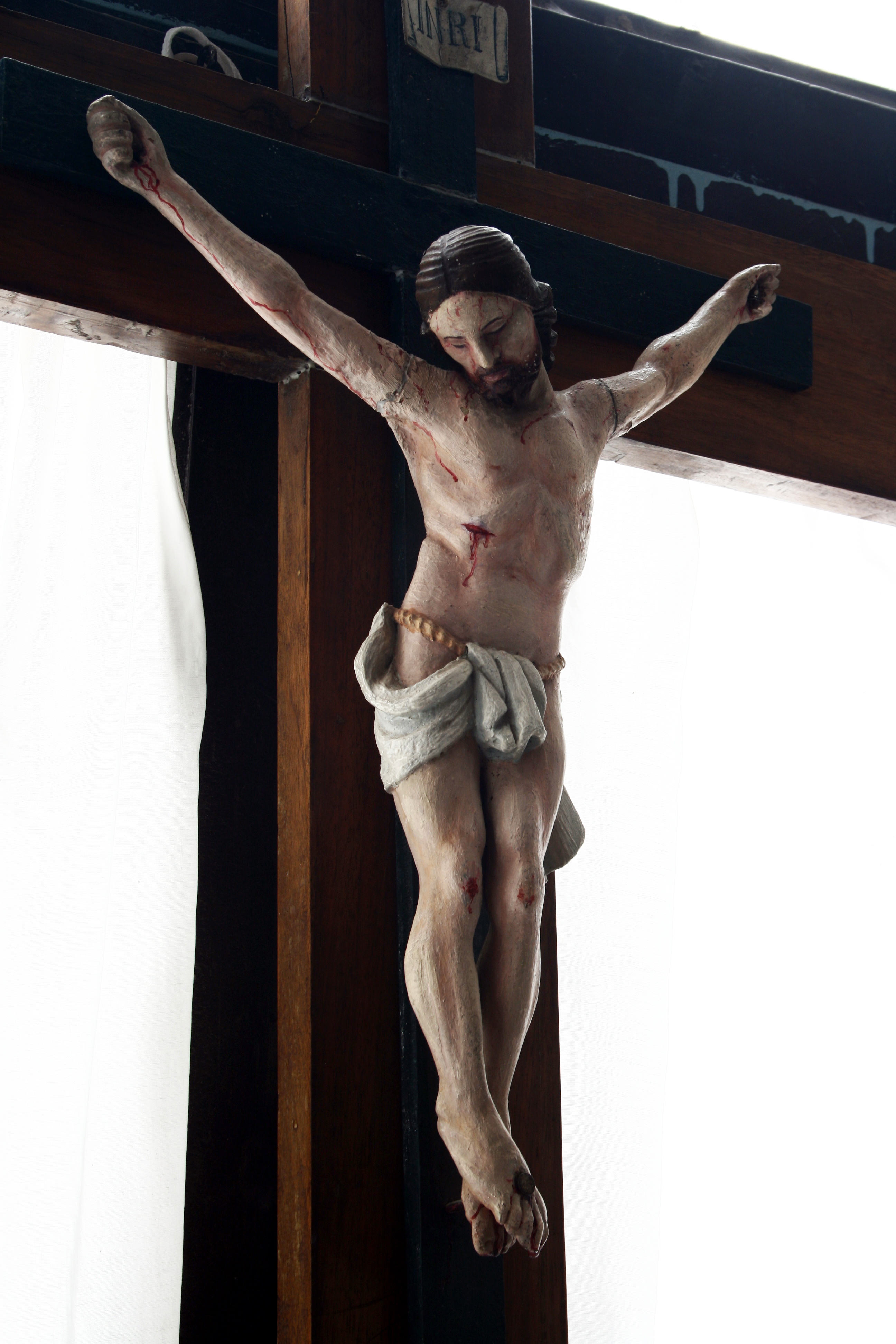 Insert plan of San Lasar (Katolik) church - Tabriz